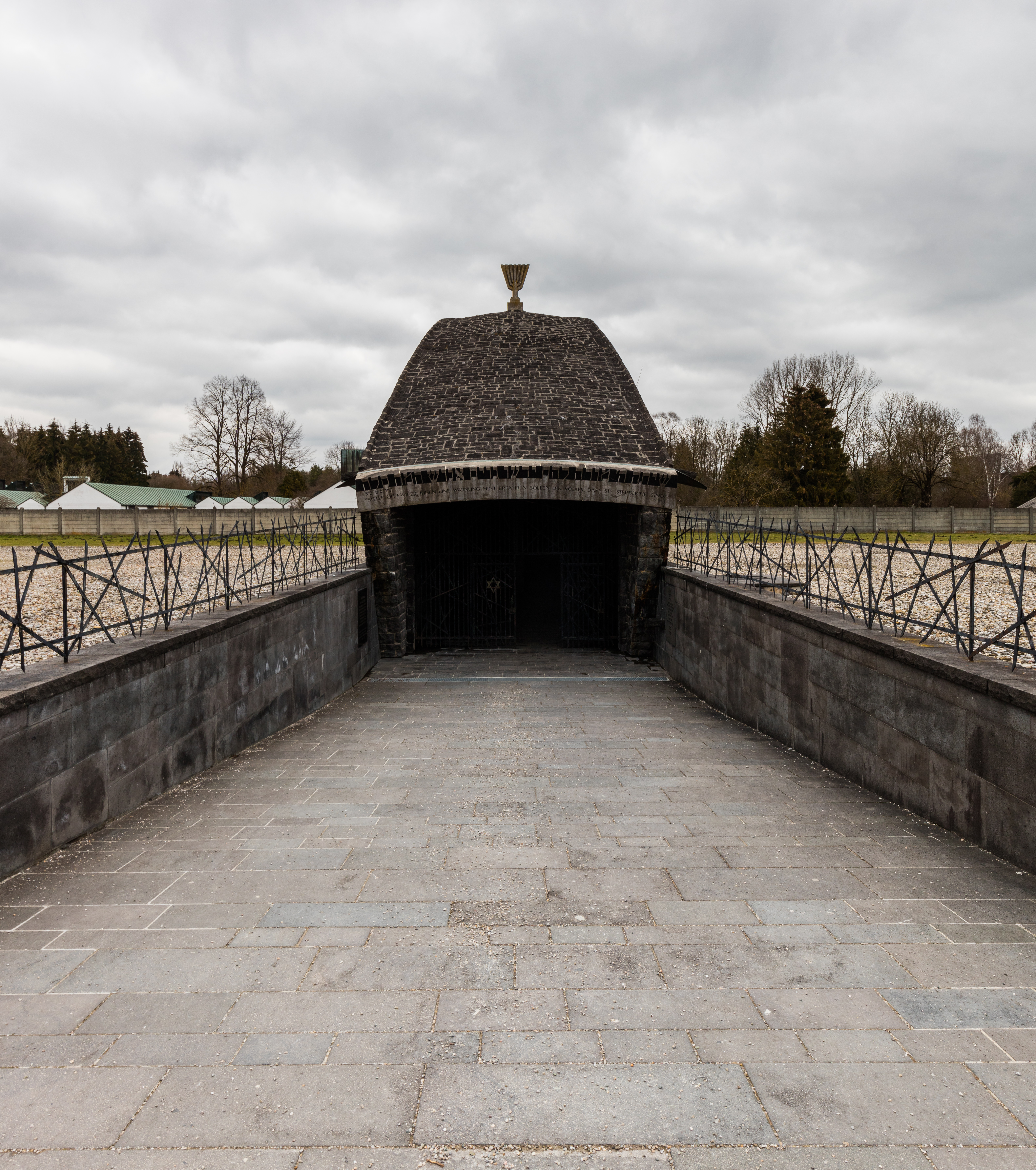 Jewish memorial, concentration camp of Dachau, Germany